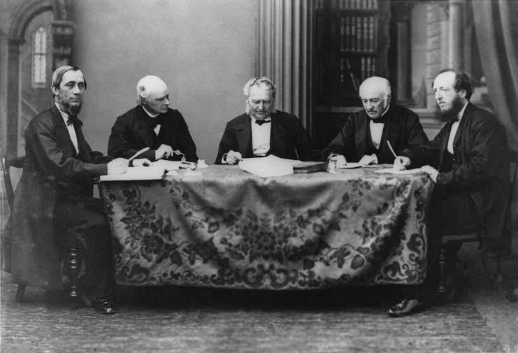 Photograph, Commission to codify the laws of Lower Canada in civil matters, Québec, Lower Canada, about 1865. Silver salts, paint (retouching) on paper mounted on card - Albumen process - 22 x 33 cm